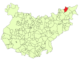 Castilblanco, spanish municipality in the province of Badajoz, Extremadura.